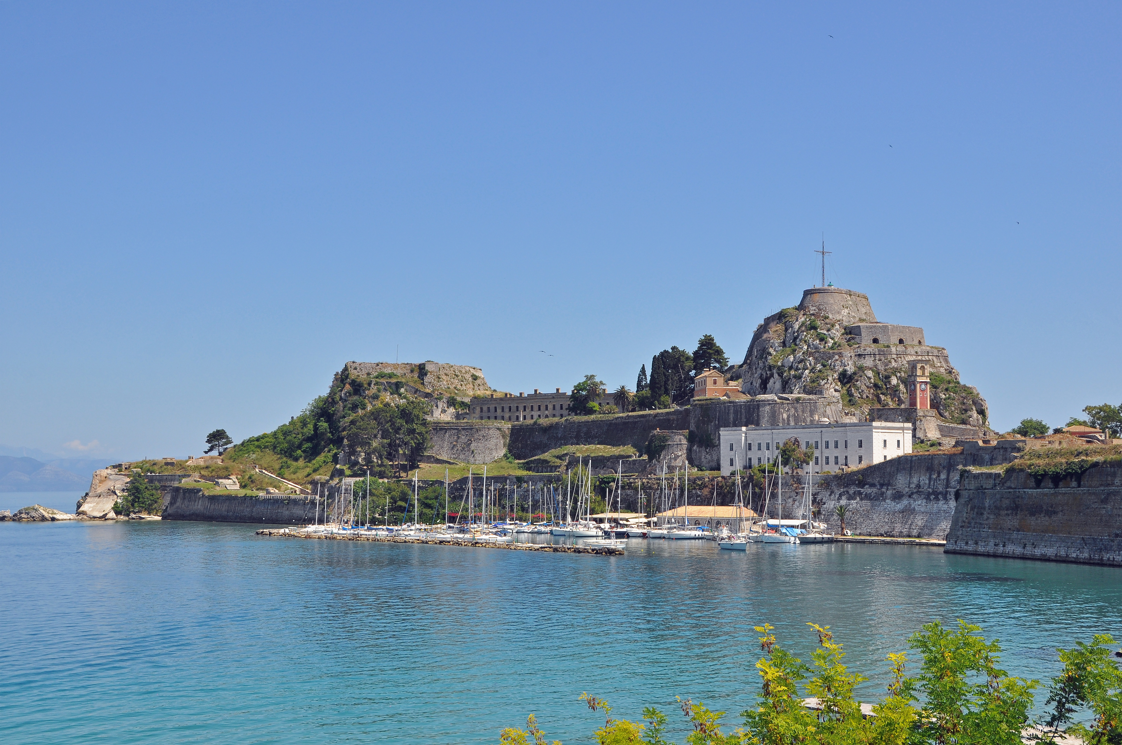 Corfu Town (Corfu, Greece): the old fortress